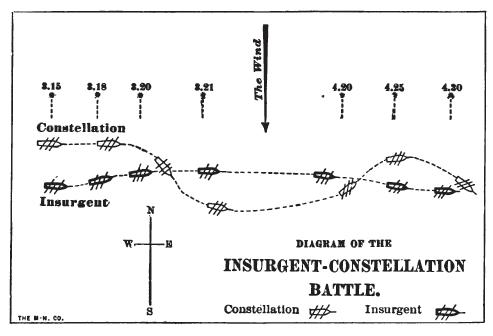 A diagram of the battle between Constellation and Insurgente